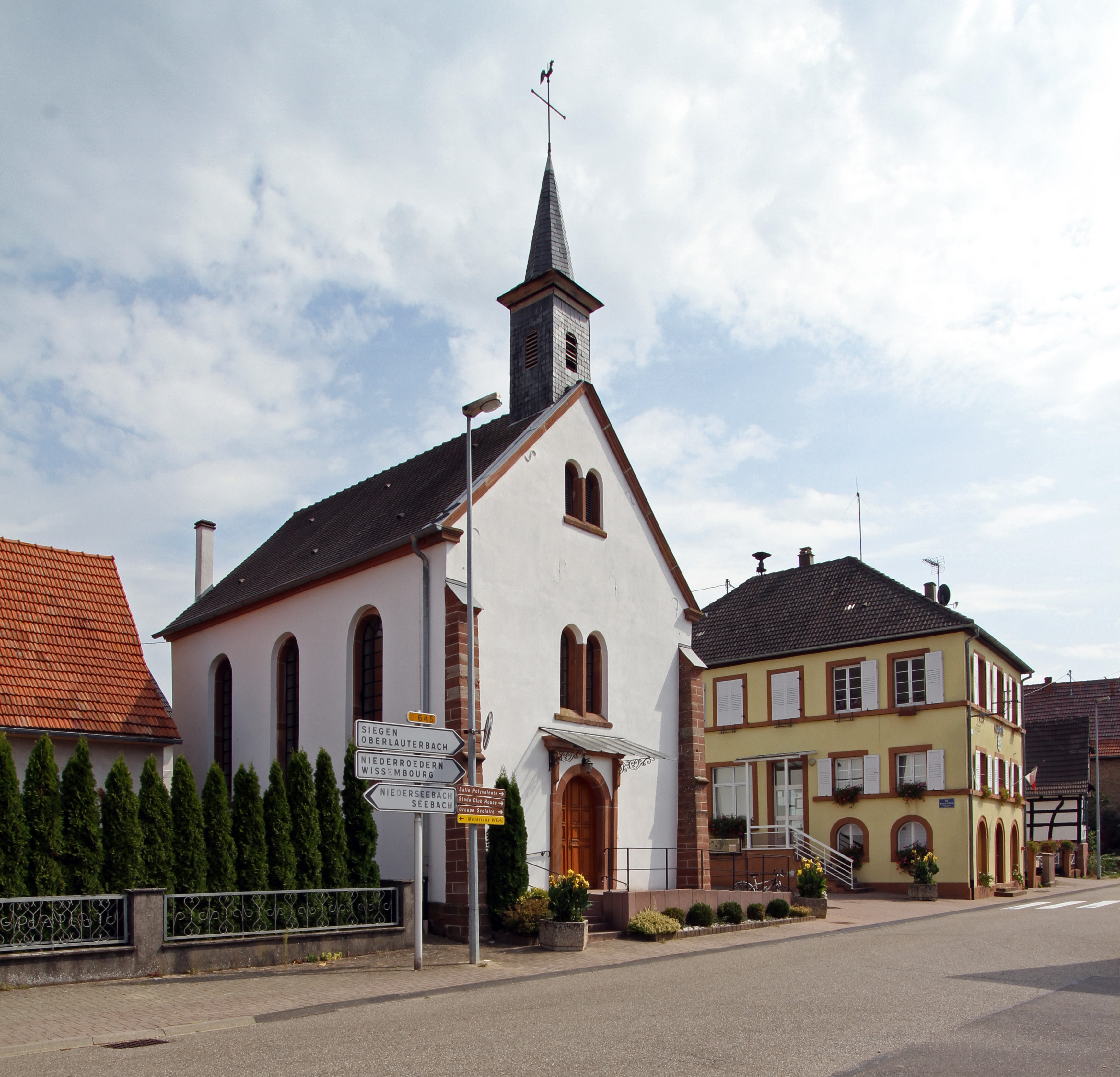 Protestant church in Trimbach.